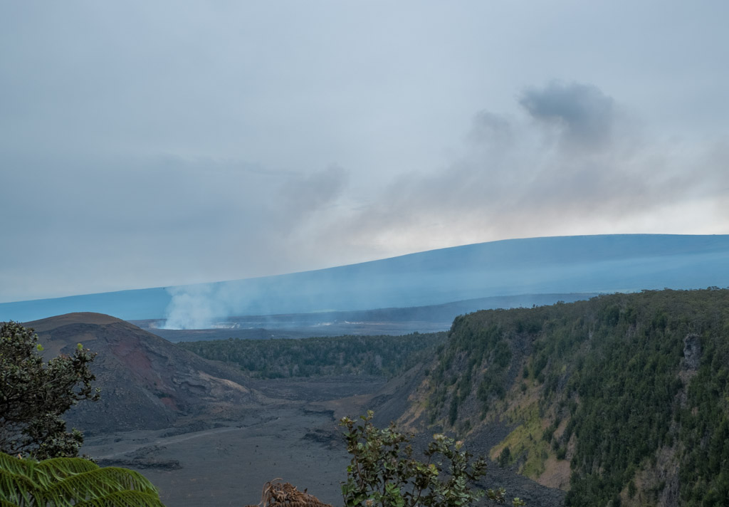 View taken from the edge of Kilauea Iki, with a view across that crater and the main Kilauea caldera, with Halemaumau visible smoking on the left, and the main peak of Mauna Loa visible at the rear.